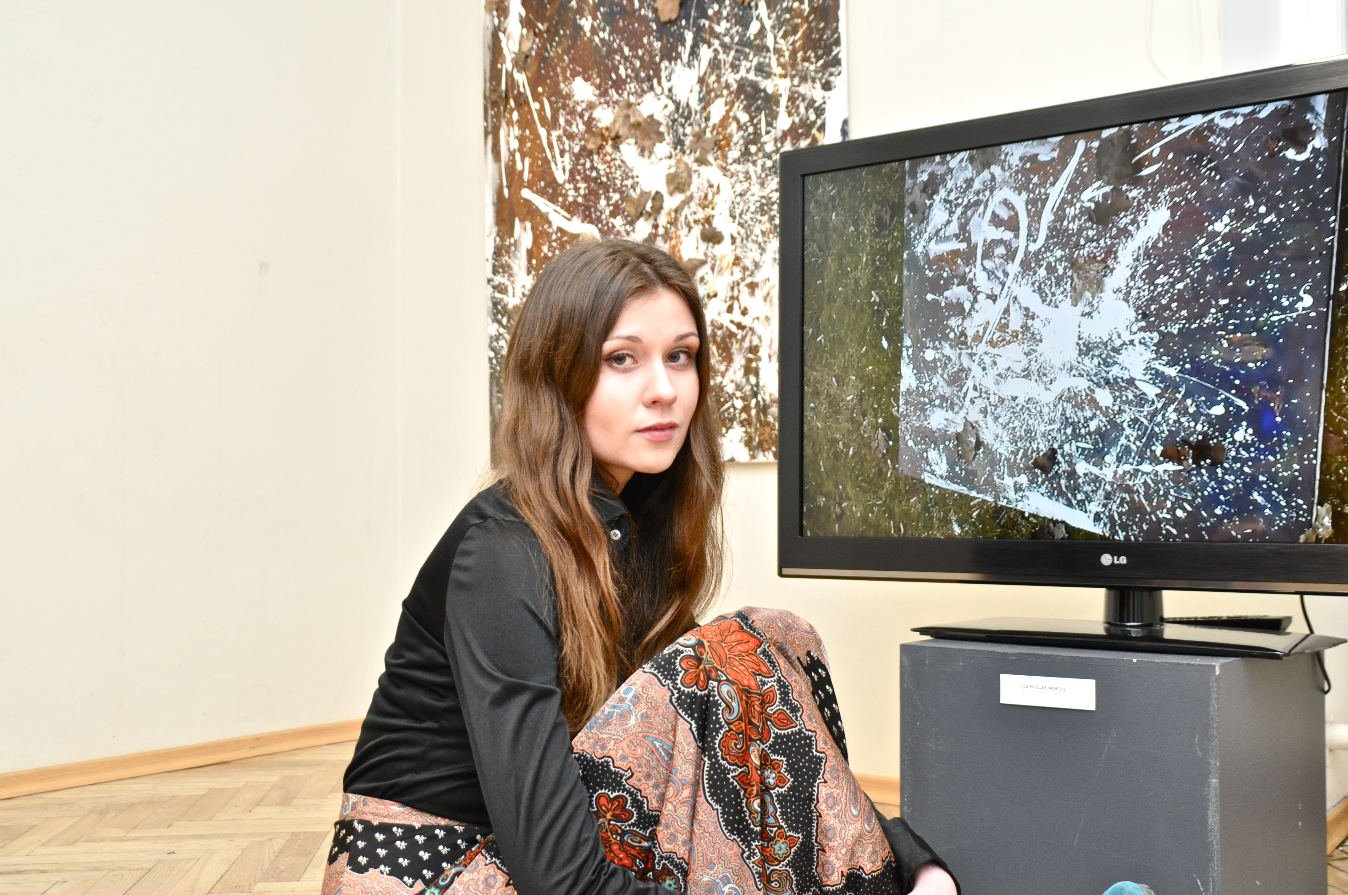 Liis Koger - photo by Alar Raudoja - 08.01.2014